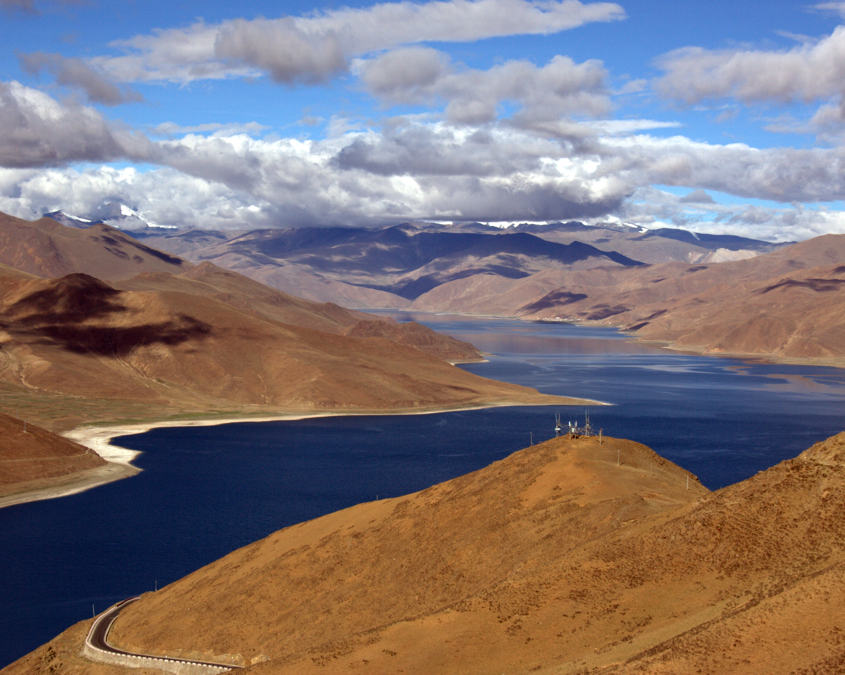 Yam-tso/Yamdrok Lake in Tibet.